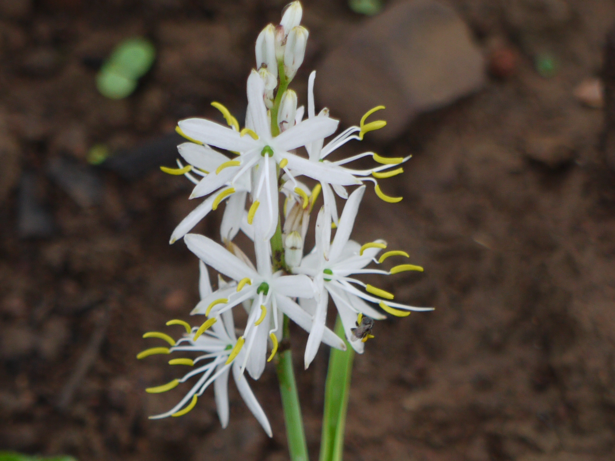 Liliaceae (lily family) » Chlorophytum borivilianum kloh-roh-FY-tum -- from the Greek chloros (green), and phyton (plant) bory-wili-YAH-num -- of or from Borivili National Park, India commonly known as;: safed musali • Gujarati: ધોળુ મૂસળી dholu musli • Hindi: सफ़ेद मुसली safed musli • Marathi: कुळई kulai, सफेत मुसळी safet musli Endemic to: India (Maharashtra and Gujarat; elsewhere cultivated) References: Flowers of India • FRLHT • Further Flowers of Sahyadri - Shrikant Ingalhalikar